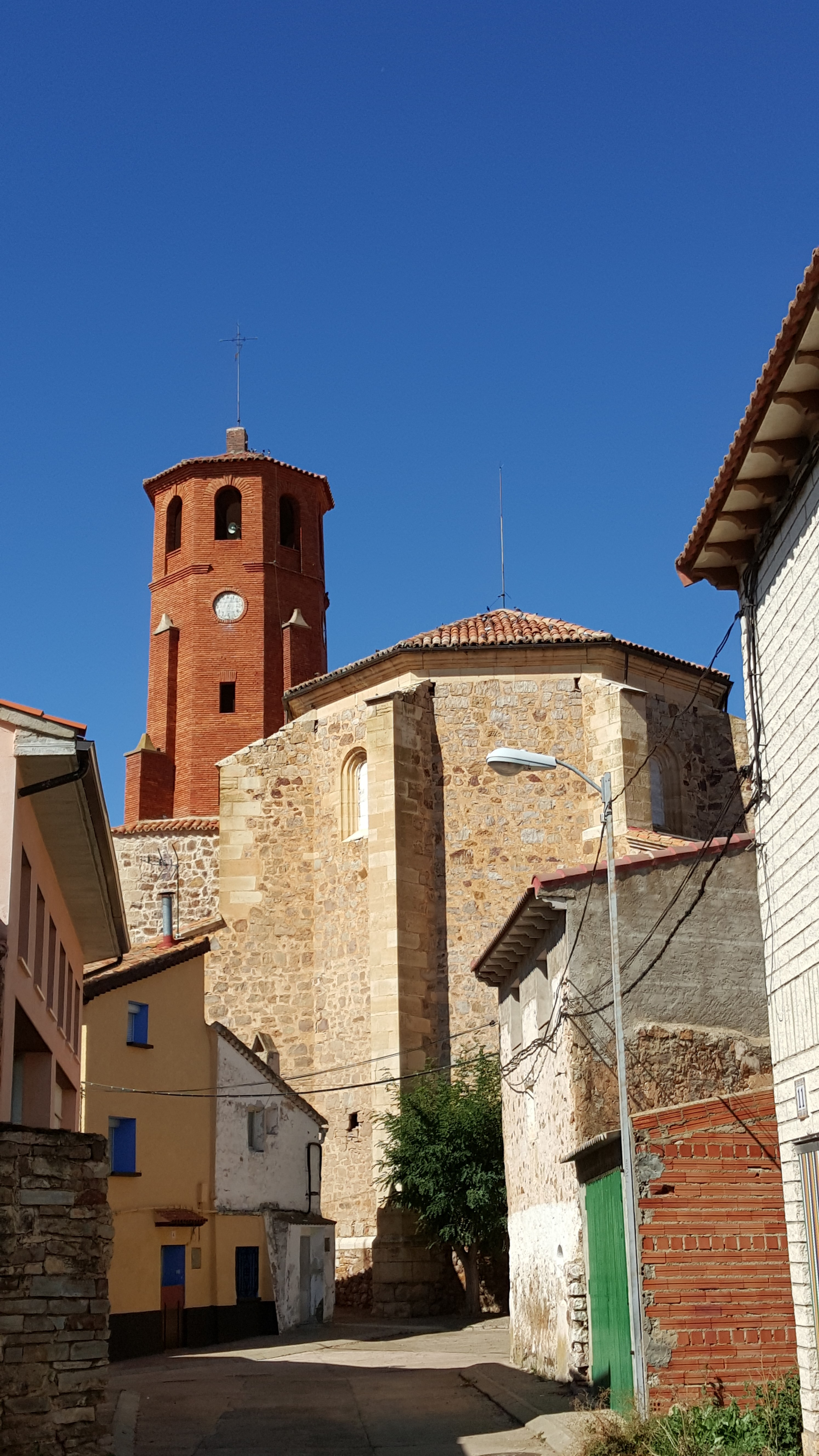 Church of St Peter and St Paul, Used, Zaragoza, Spain